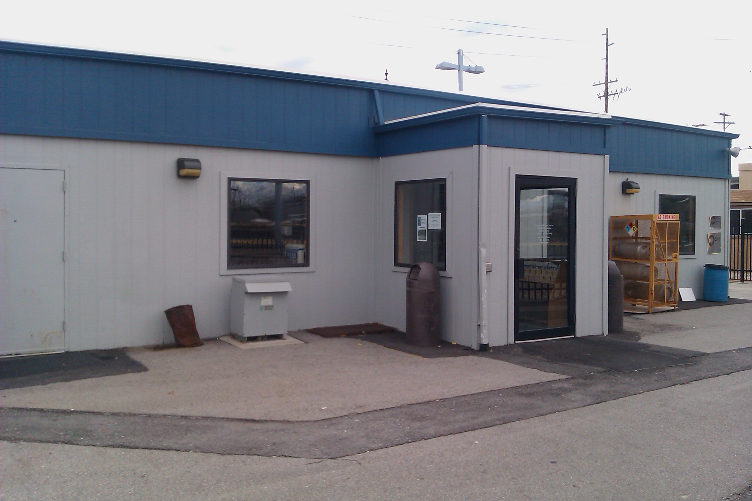 The Amtrak lobby and ticket office at the Salt Lake City Intermodal Hub.